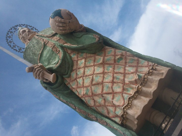 San Fernando Memorial